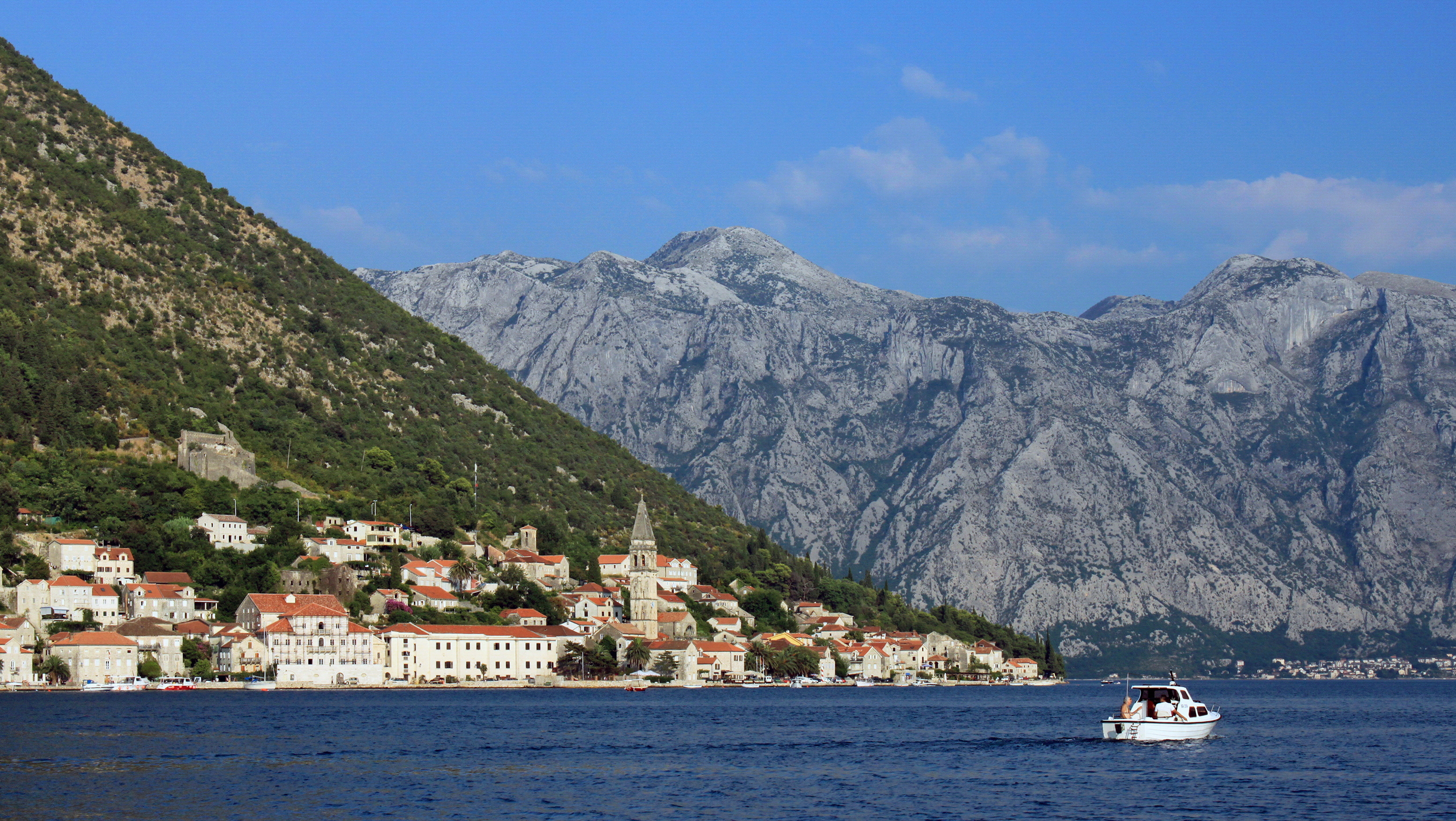 View of the city from the sea. Perast, Montenegro.